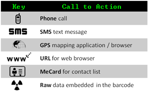 SPARQCode Pictograms Examples